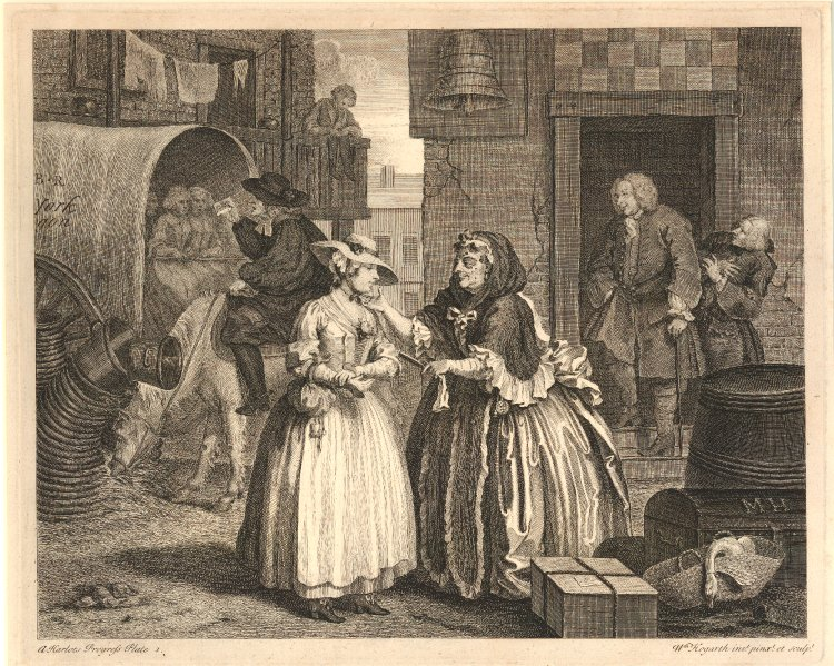 "A Harlot's Progress", Plate 1, etching and engraving, by the British artist and engraver William Hogarth. 318 mm x 389 mm. Courtesy of the British Museum, London.